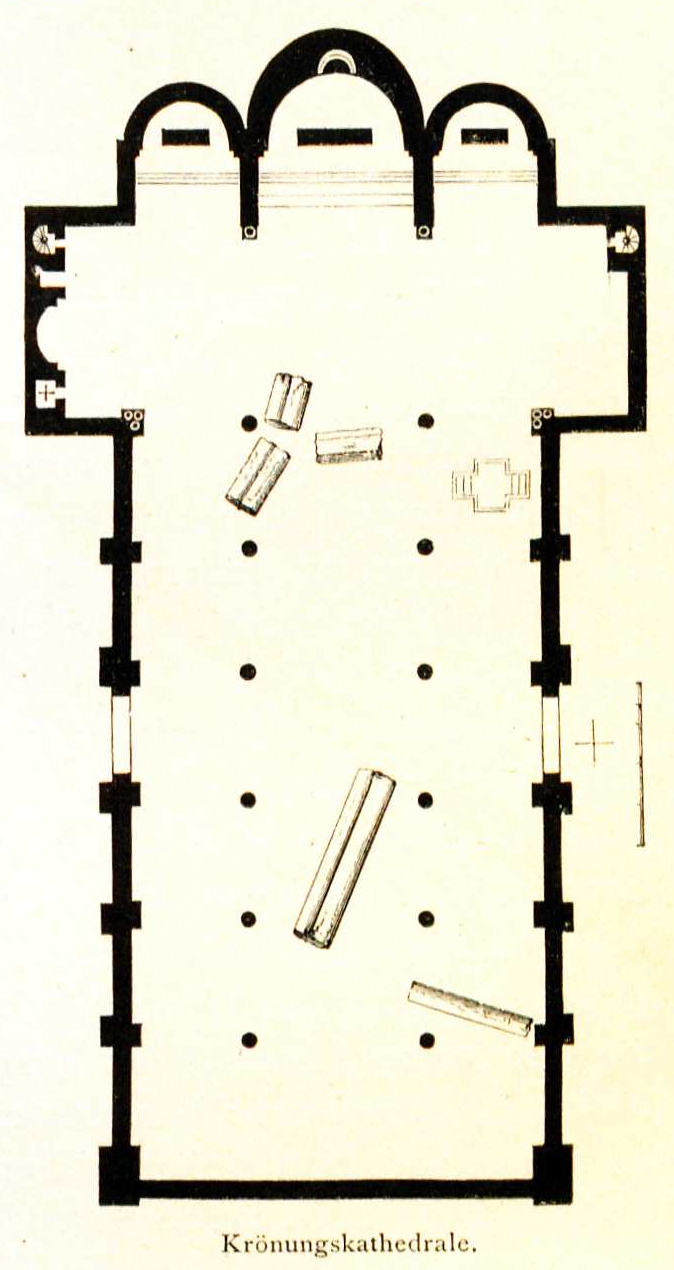 A map of the crowning cathedral from the Crusader period in the 12th and 13th century AD in Tyre, as excavated by the Bavarian historican Johann Nepomuk Sepp during his 1874 quest for the bones of Holy Roman Emperor Frederick Barbarossa.